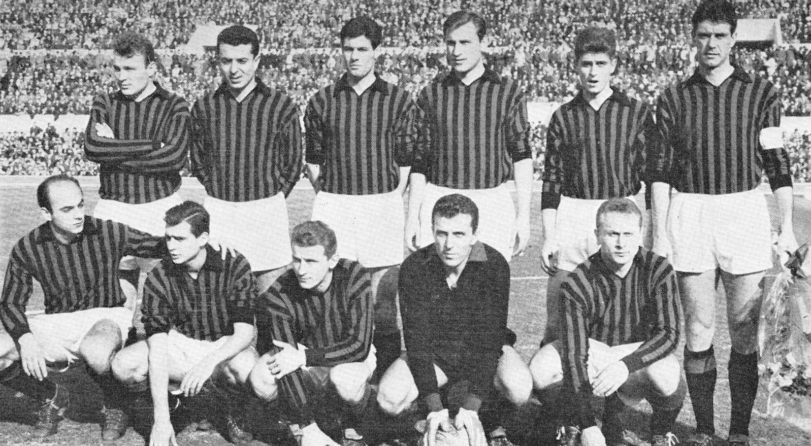 Rome, Olympic Stadium, February 25, 1962. A line-up of A.C. Milan took to the field in the away victory versus A.S. Roma (1-0), valid for the 27th round of the Italian Championship 1961–62 Serie A.